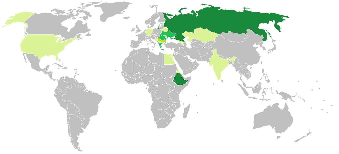 This map shows countries with more than 1.000.000 Orthodox Christians at the beginning of the 21st century. Data taken from Pewforum Christianity Report: Legend: More than 50 million More than 20 million More than 10 million More than 5 million More than 1 million